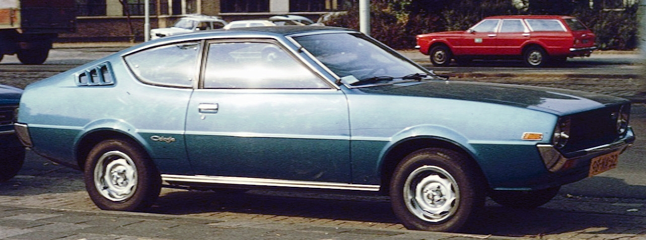 Mitsubishi Celeste in Rotterdam overlooked by an Austin Allegro